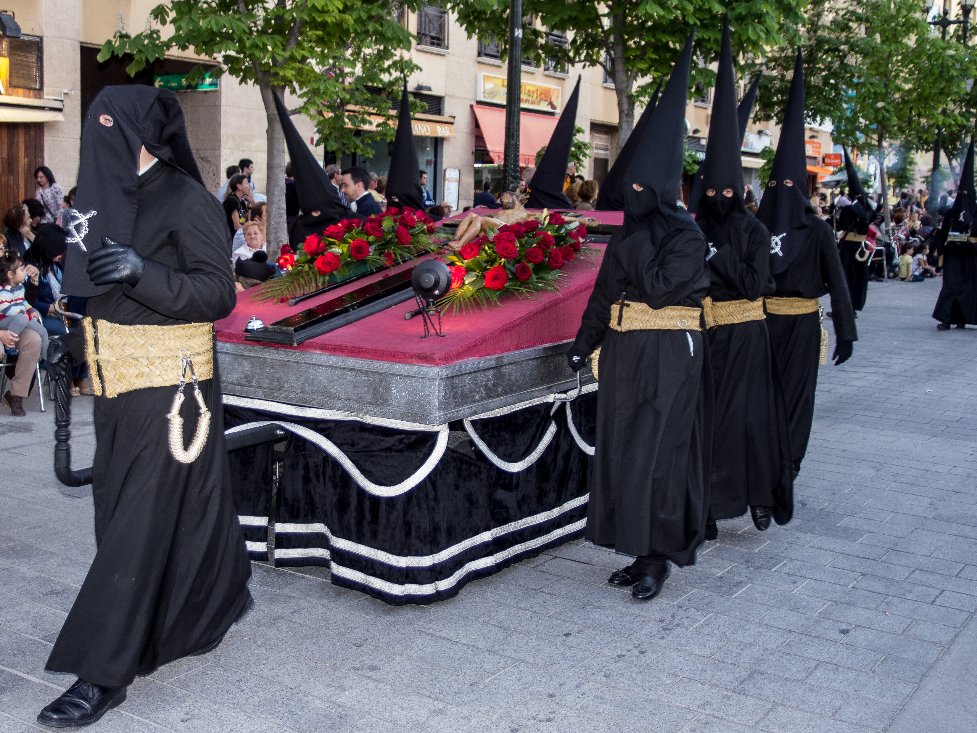 OLYMPUS DIGITAL CAMERA This is a photography of a Folklore festival in Spain (Wikidata id Q9075892).